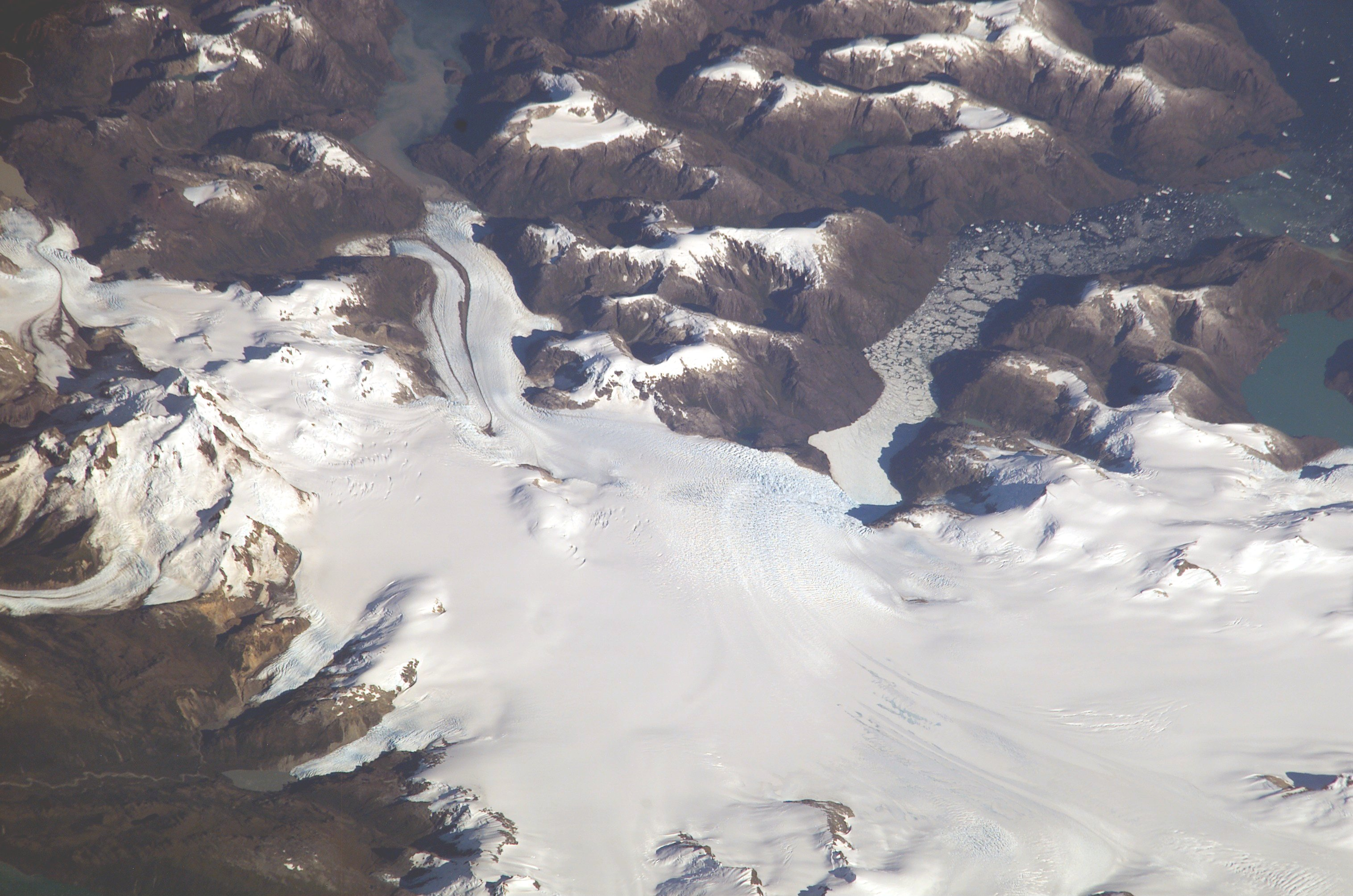 Cerro Aguilera, Campo de Hielo Sur, Chile. Edited from original image.